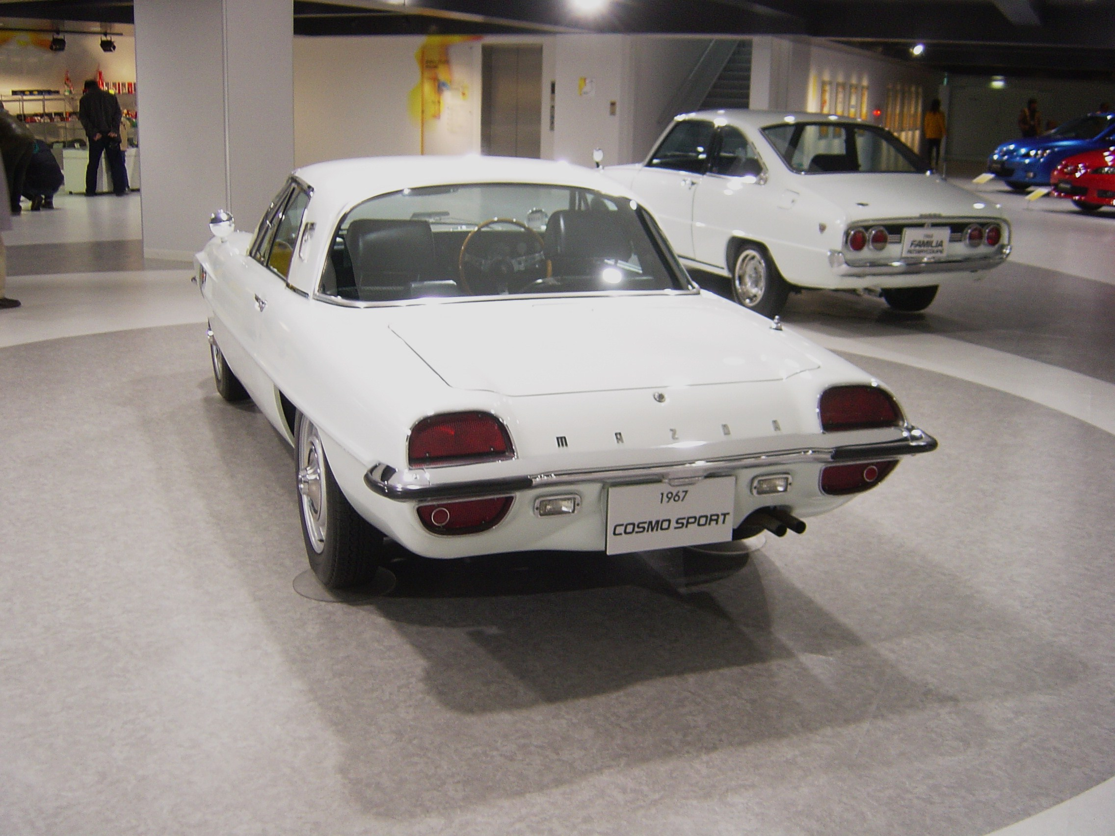 Mazda Comso Sport(マツダ・コスモ、Mazda Comso Sport, ),Mazda Museum.It is a Series I (L10A) model.